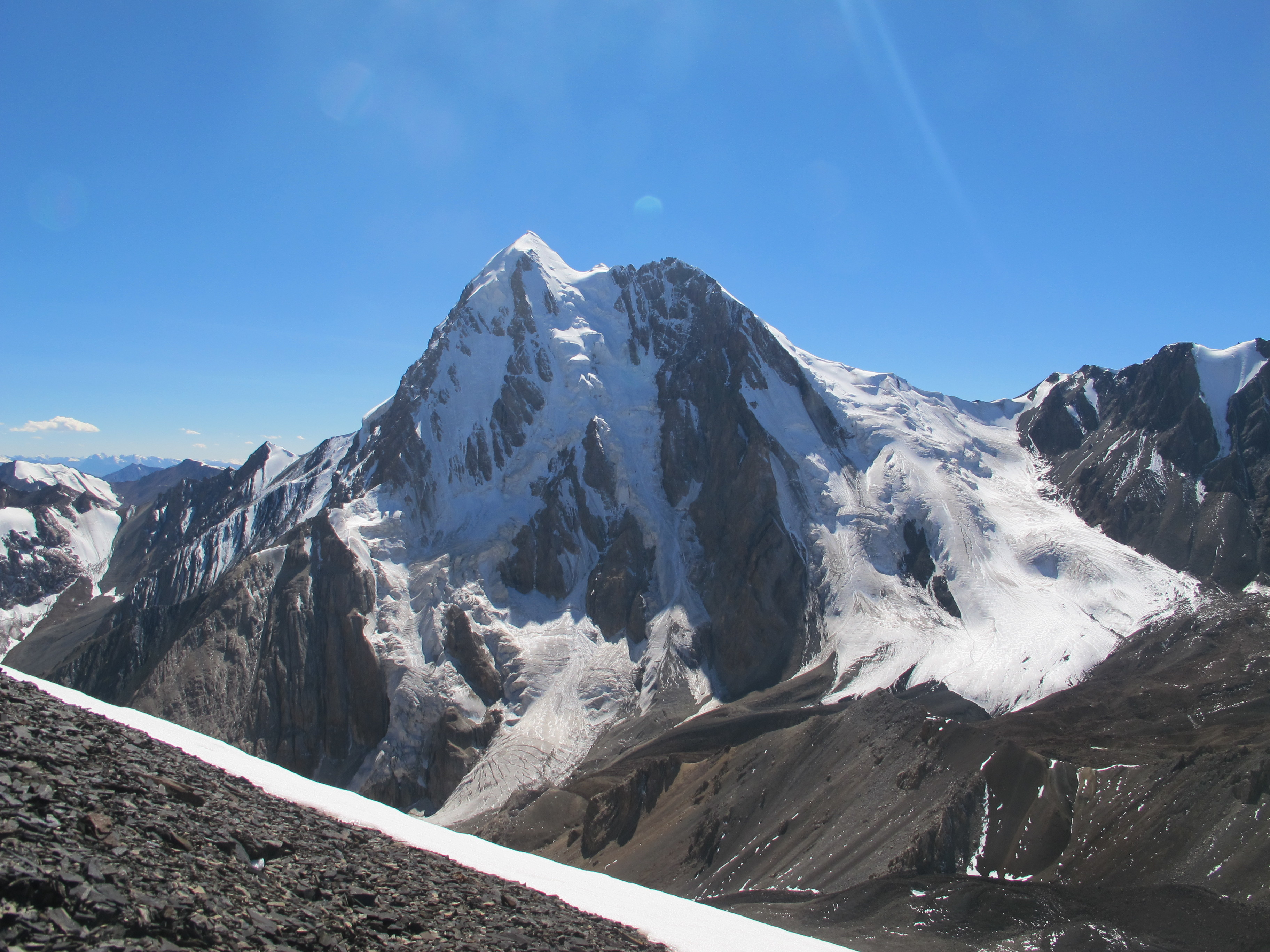 Constitution peak (or Soviet Constitution peak, historically also Stalin Constition peak, 5284 m), highest peak of Kuyljutau, viewed from east side.